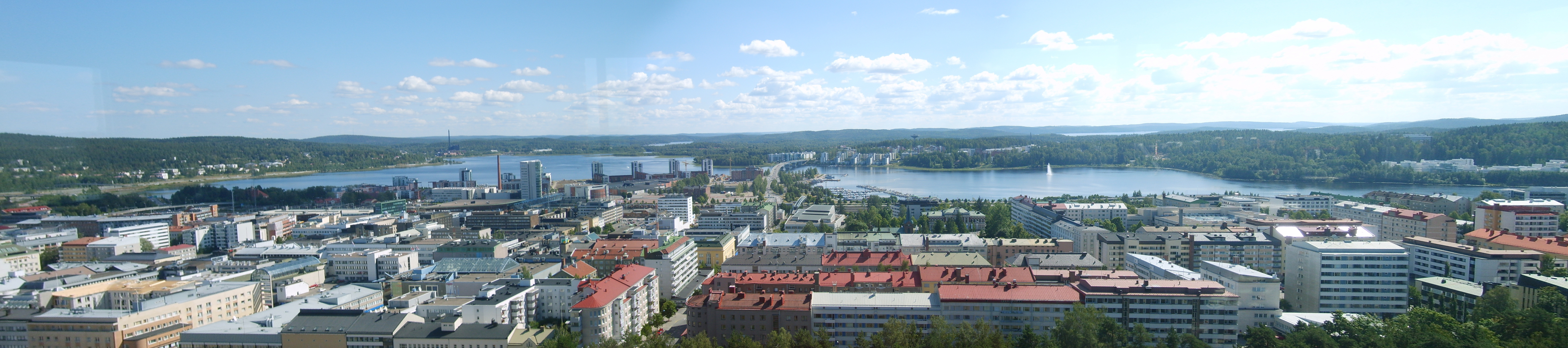 view of the city of Jyväskylä from the panoramic tower. I took 3 separated pictures and I merged them using the programs (in this order): autopano, hugin, enblend, finally cropped and converted to jpg with GIMP.